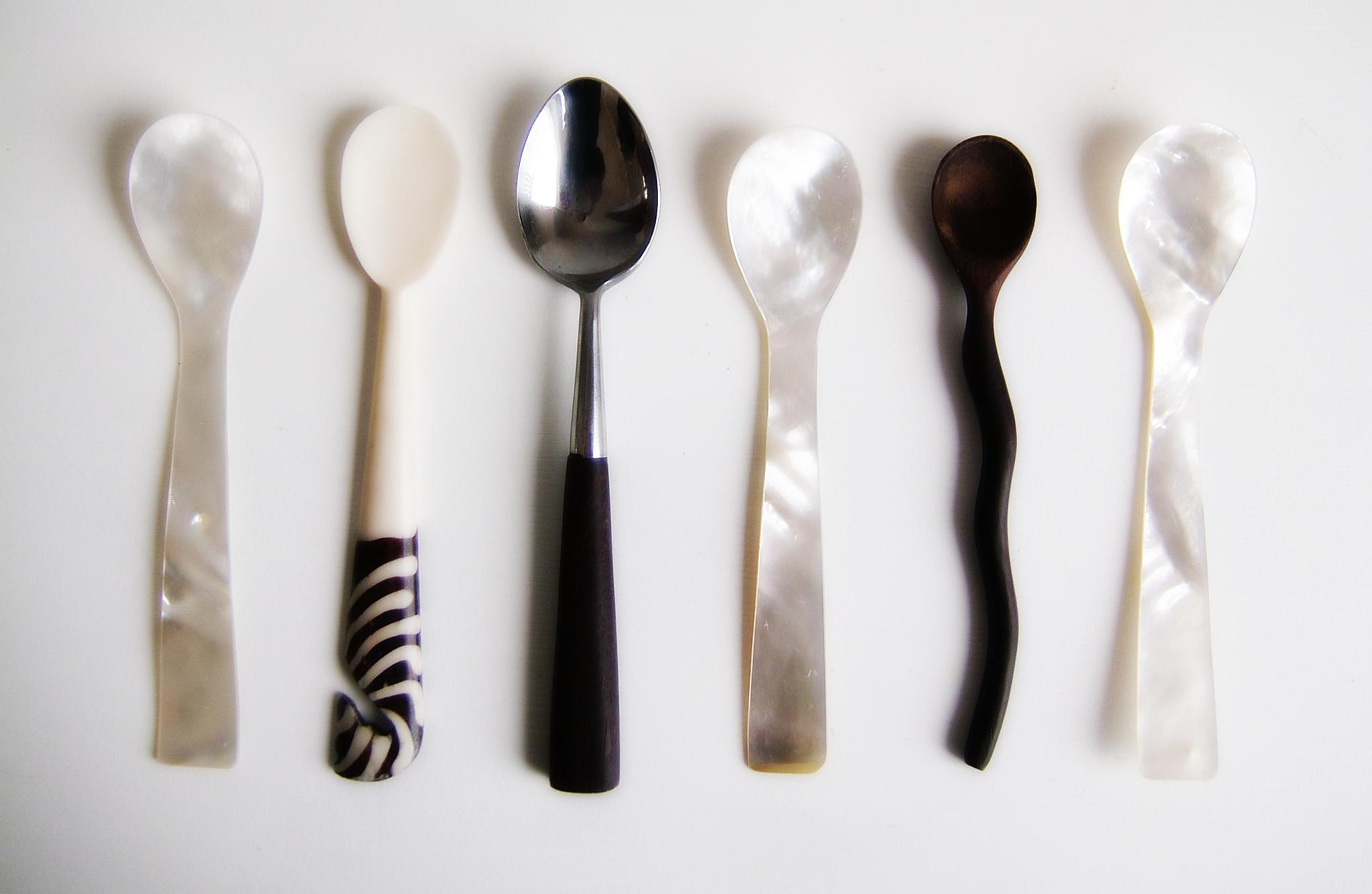 Spoon Collection